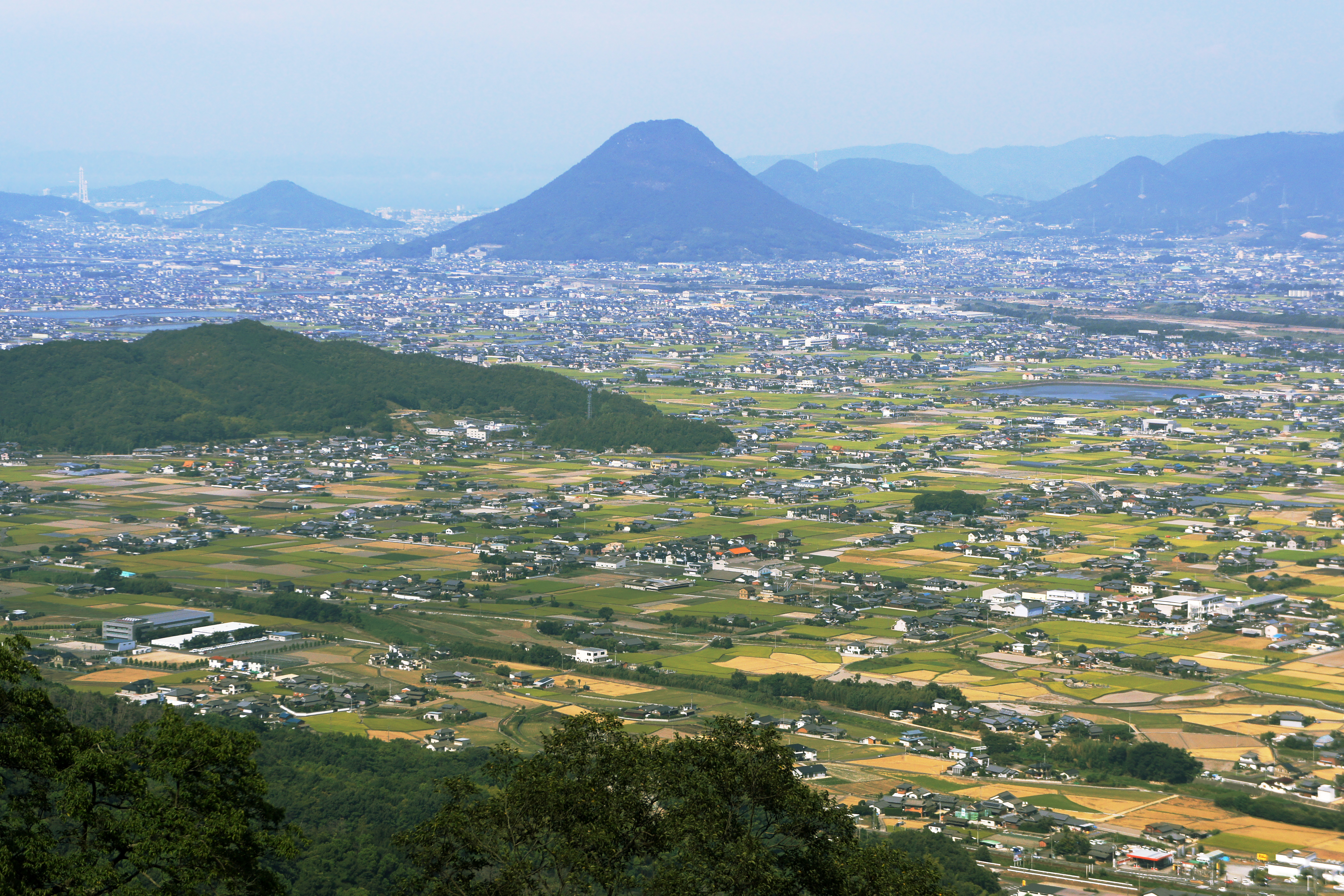 Sanuki Plain view from Izutama-jinja of Kotohira-gu in Kotohira, Kagawa prefecture, Japan.